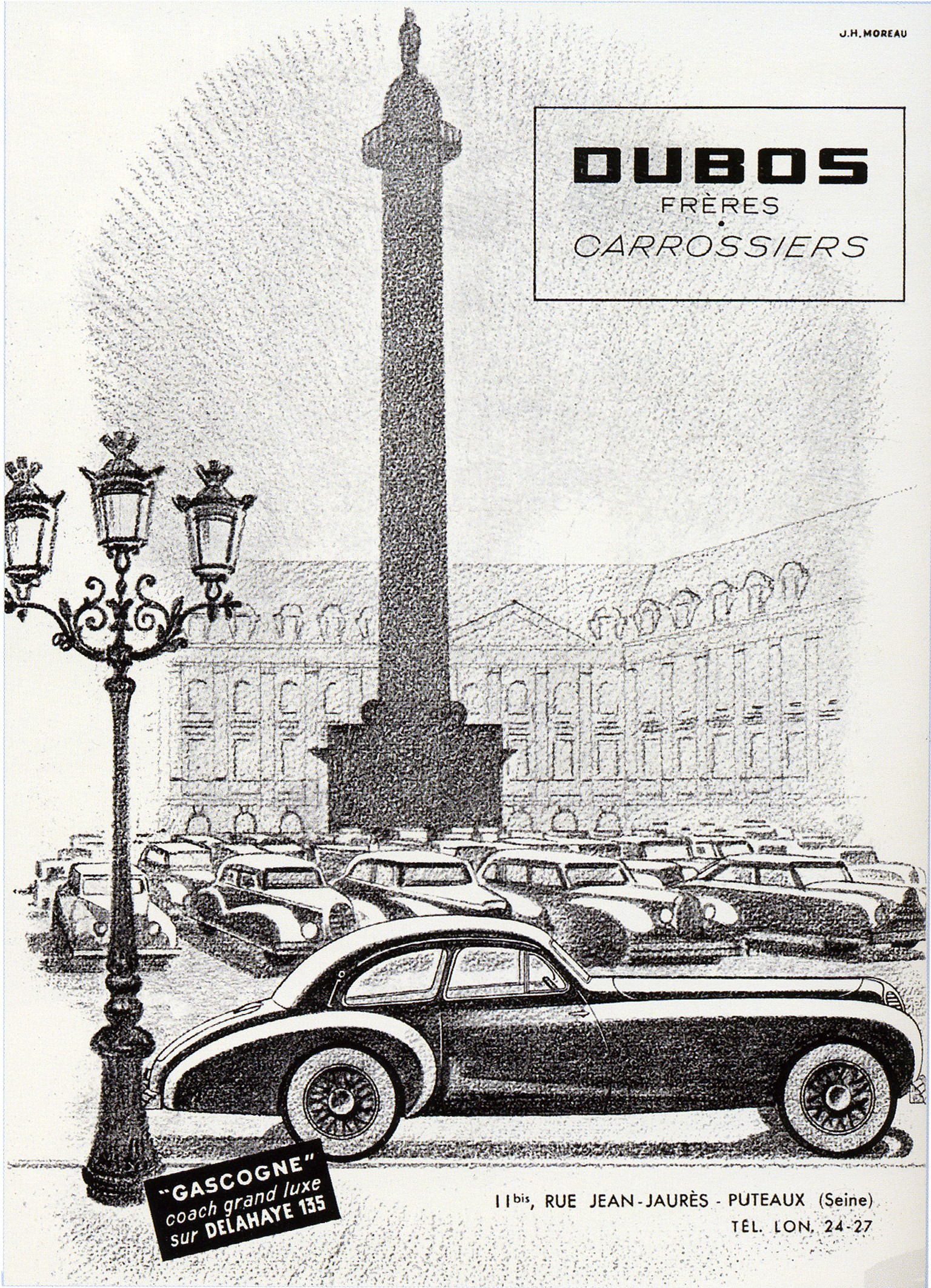 The ad of the "Gascogne"